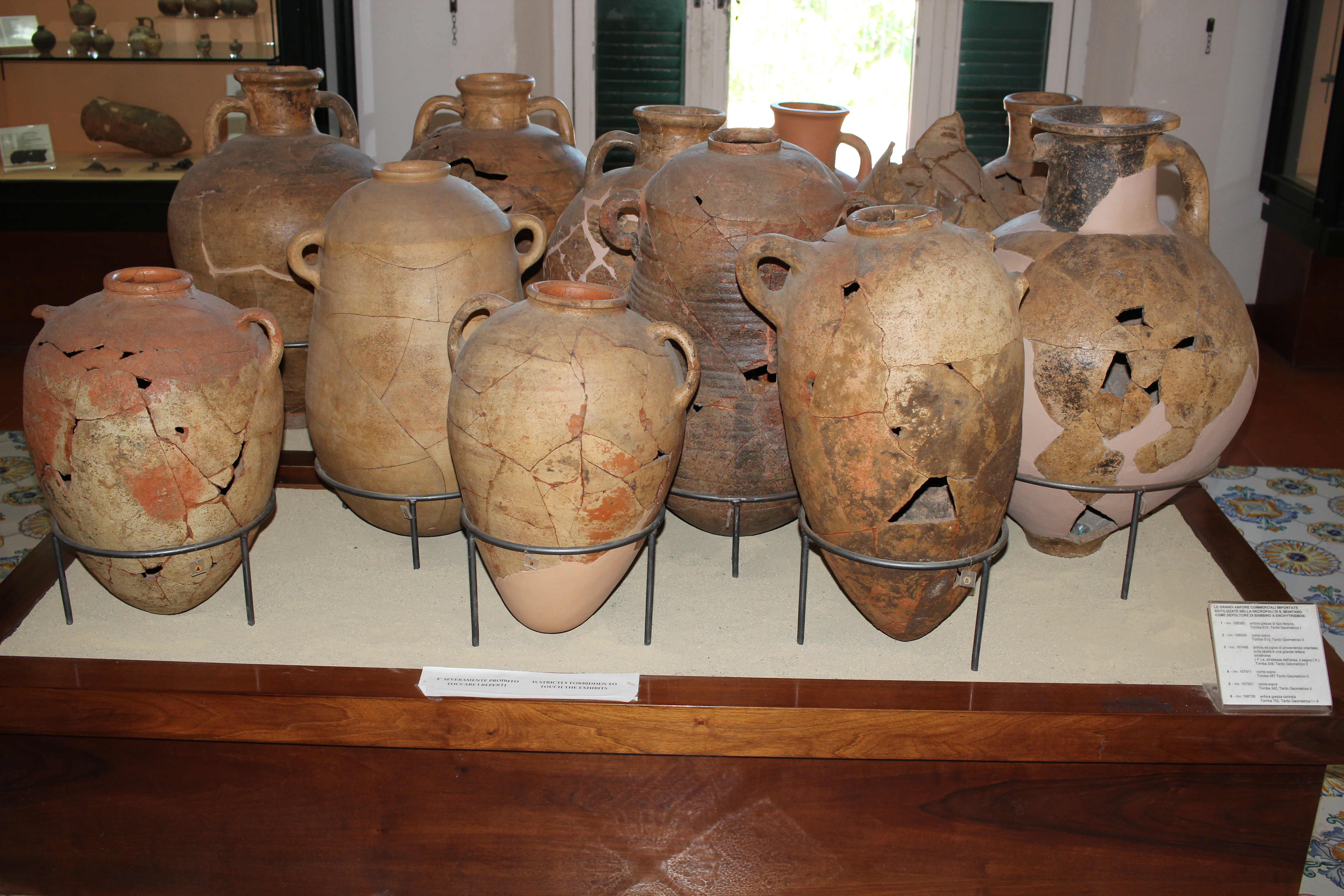 Lacco Ameno, Archaeological Museum of Pithecusae: Amphorae were also used in the necropolis of San Montano for burials of children.